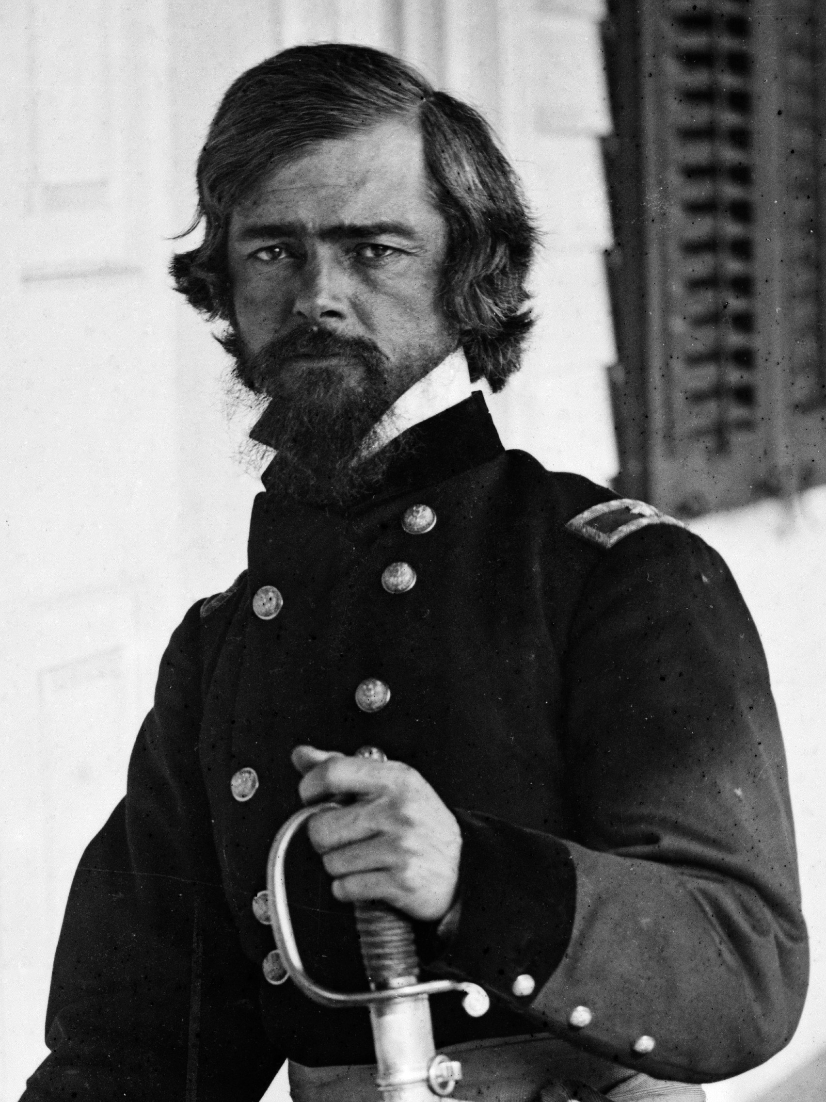 Beaufort, S.C. Gen. Isaac I. Stevens